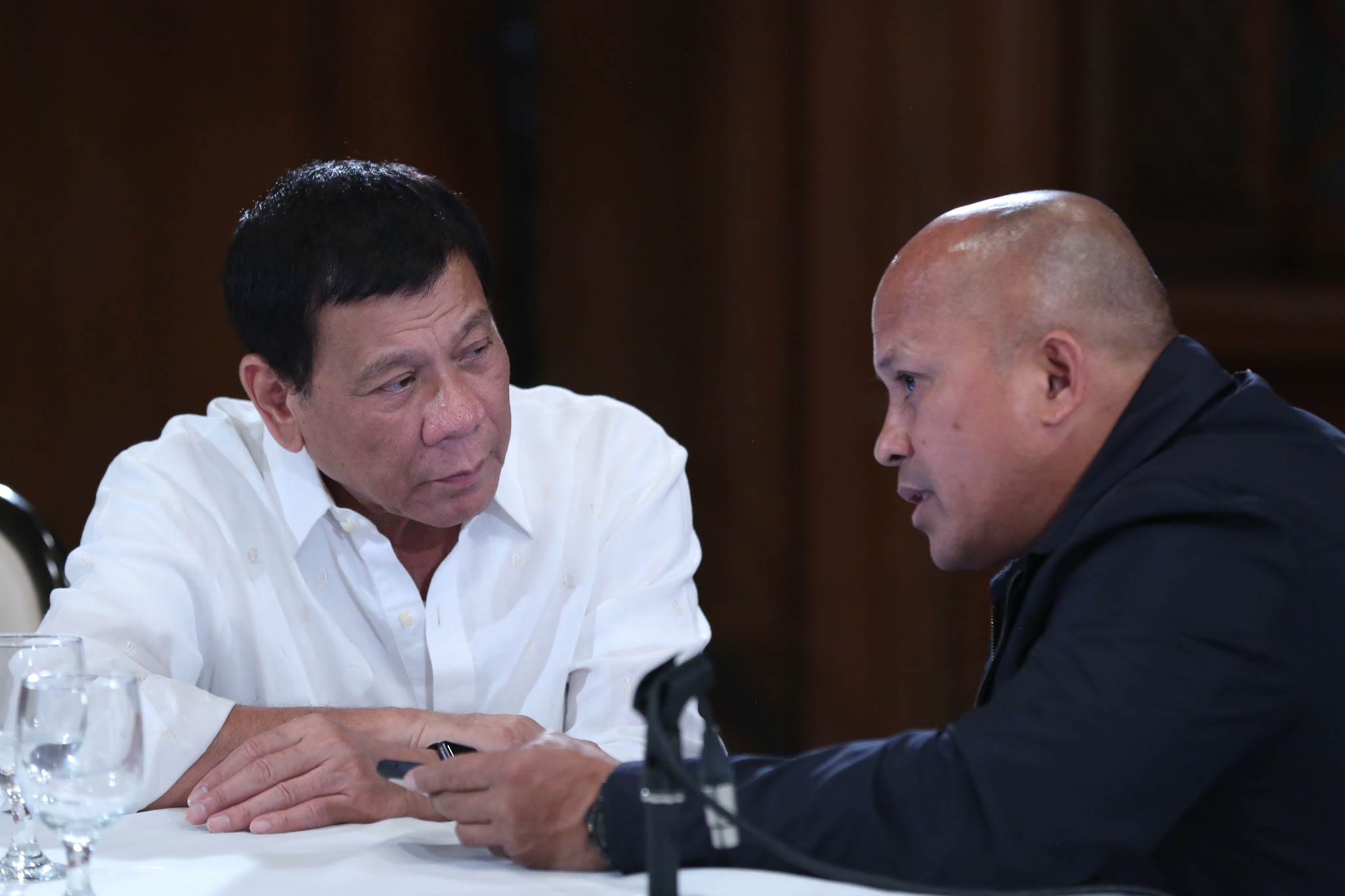 President Rodrigo Duterte listens to the report of Philippine National Police Chief Ronald Dela Rosa in a meeting held in the State Dining Room in Malacañan on August 16. KING RODRIGUEZ/PPD